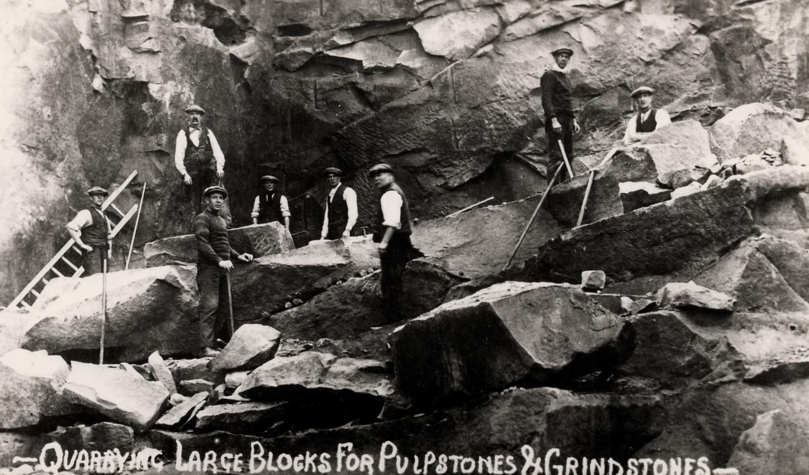 Photo of quarrymen at Kell's Quarry, Windy Nook taken from the Gateshead Council public archive at I-See Gateshead